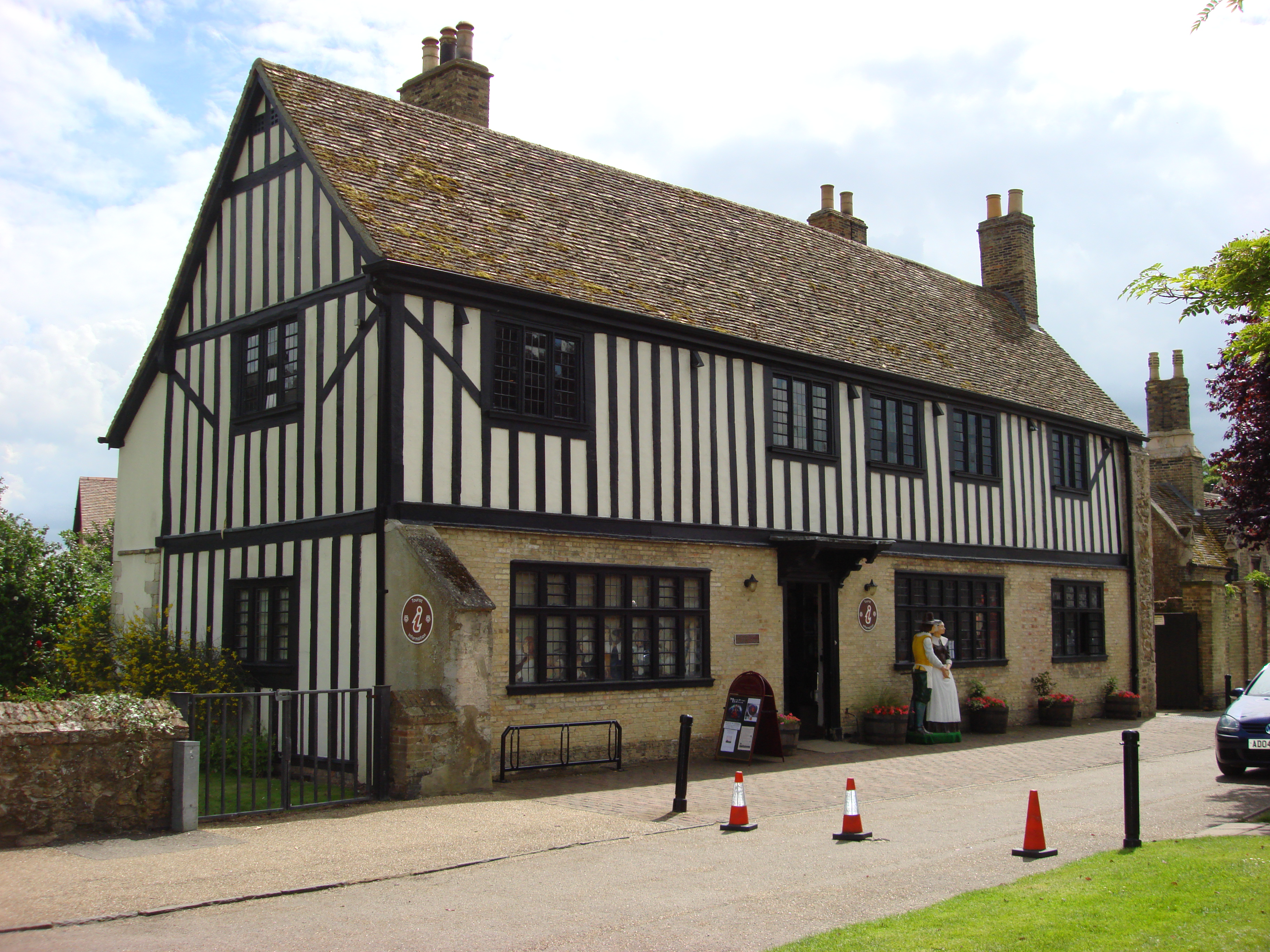 Oliver Cromwell lived in Ely for several years after inheriting the position of local tax collector in 1636. His former home dates to the 16th century and is now used by the Tourist Information Office as well as being a museum with rooms displayed as they would have been in Cromwell's time.